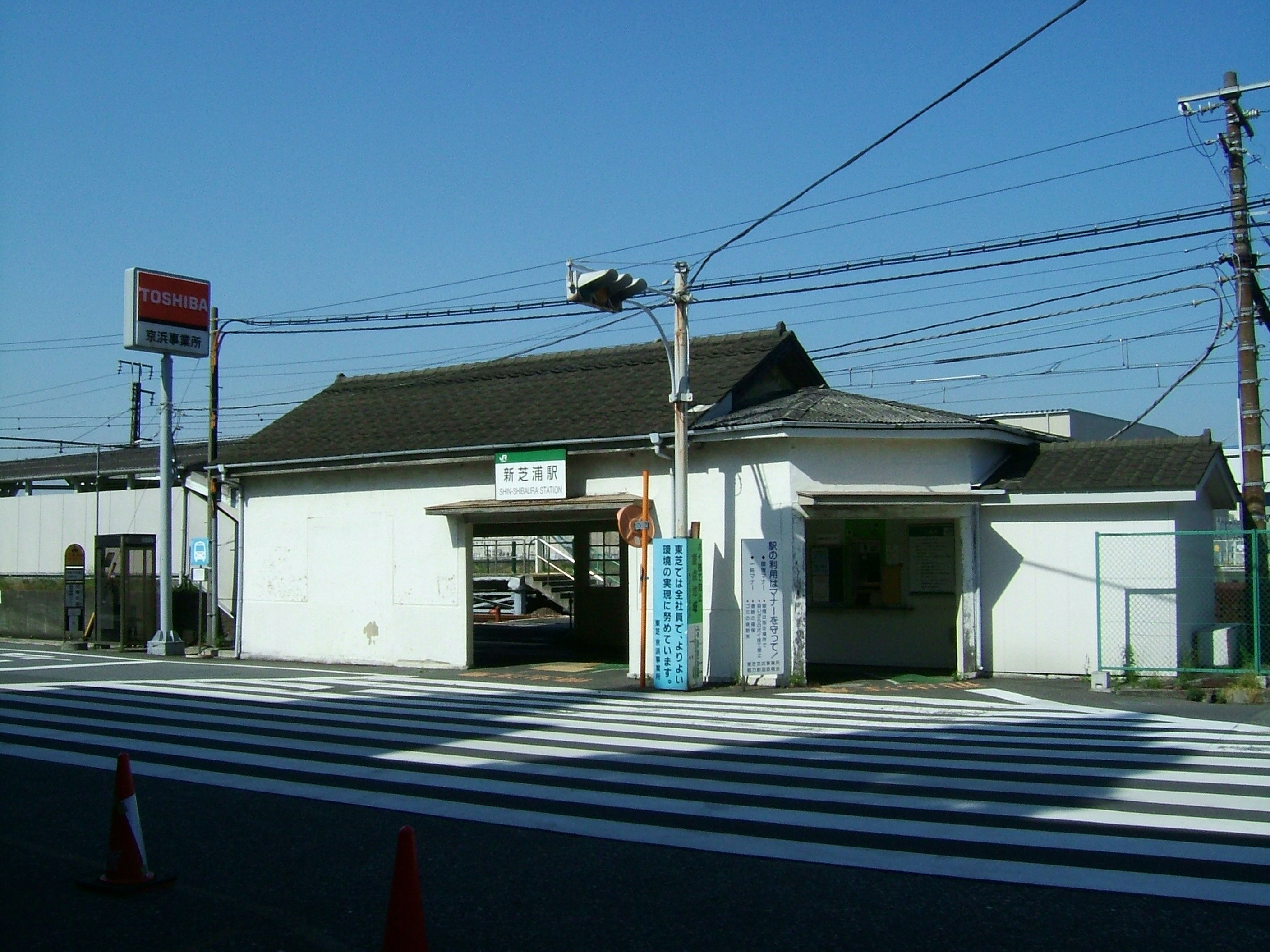 Shin-Shibaura Station building (East Japan Railway Tsurumi Line)